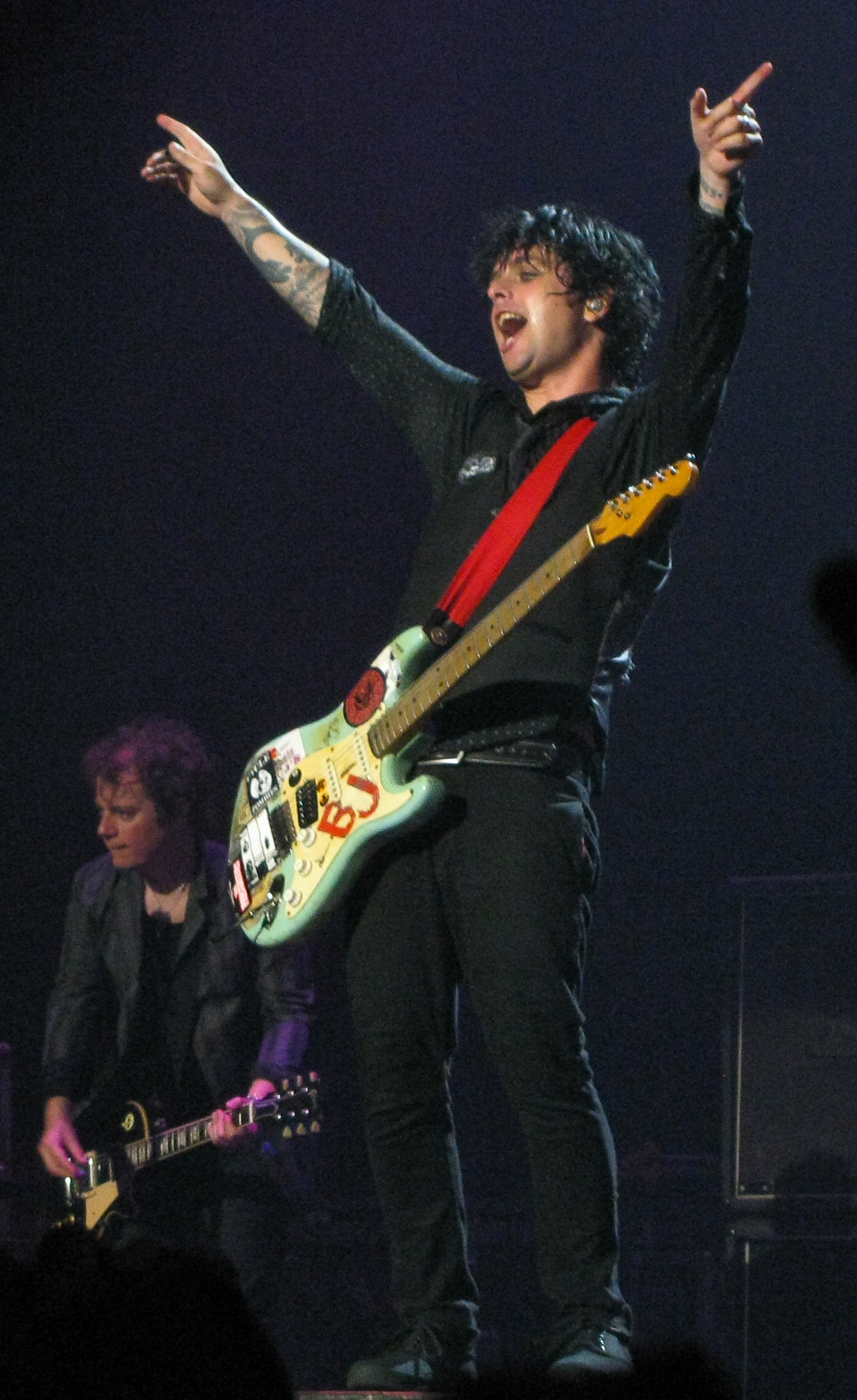 Green Day Concert (21st Century Breakdown Tour) @ Bell Center , Montreal, Canada on 18th July 2009. Green Day vocalist Billie Joe Armstrong gets the crowd singing to American Idiot.